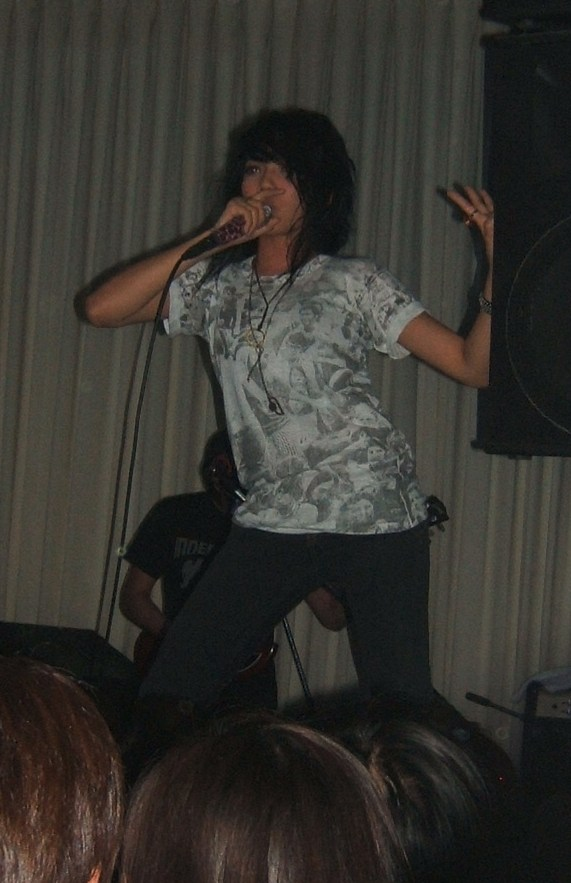 Da of Thai band Endorphine performing at Route 66, Bangkok, Thailand